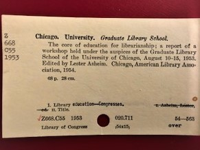 Core of Education for Librarianship-University of Chicago, Graduate Library School, 1954. Z 668 C55 1953. Lester Eugene Asheim, ed.